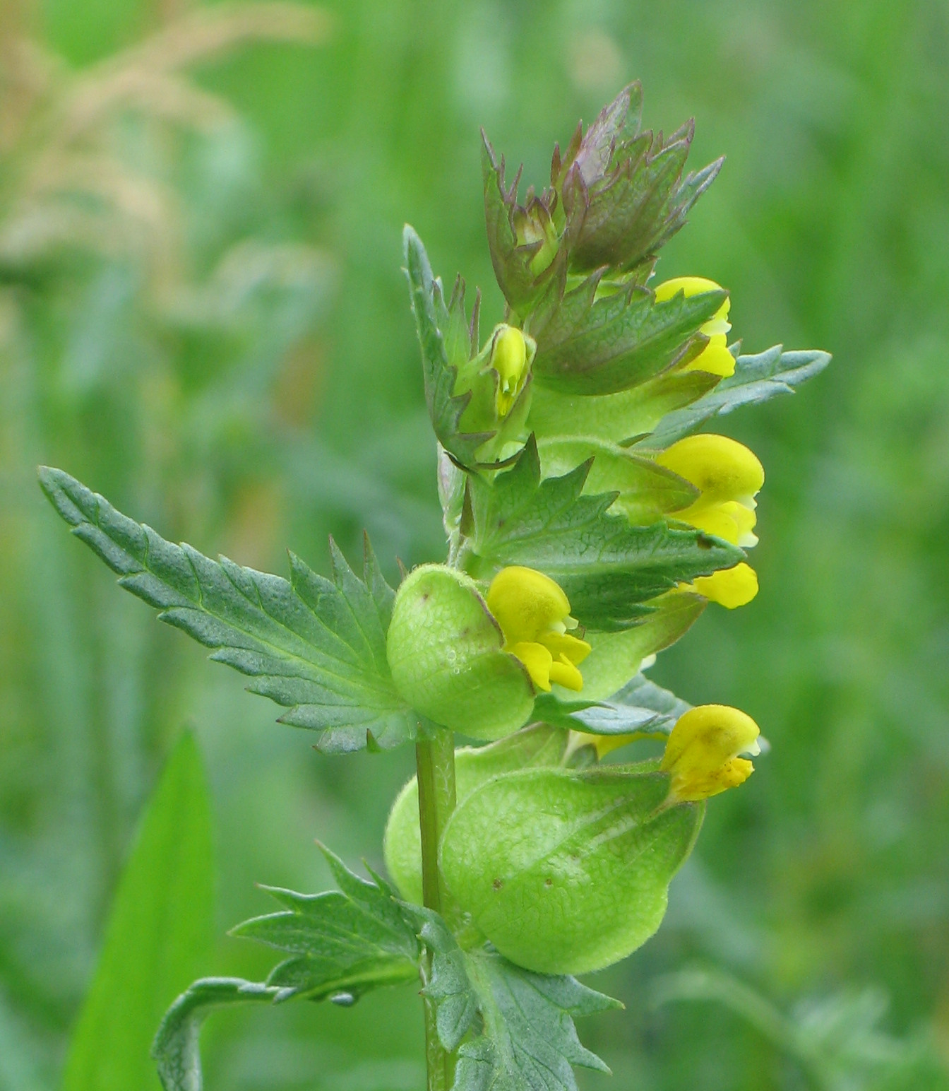 Yellow rattle (Rhinanthus minor), Revelstoke, B. C., near Columbia River, Canada